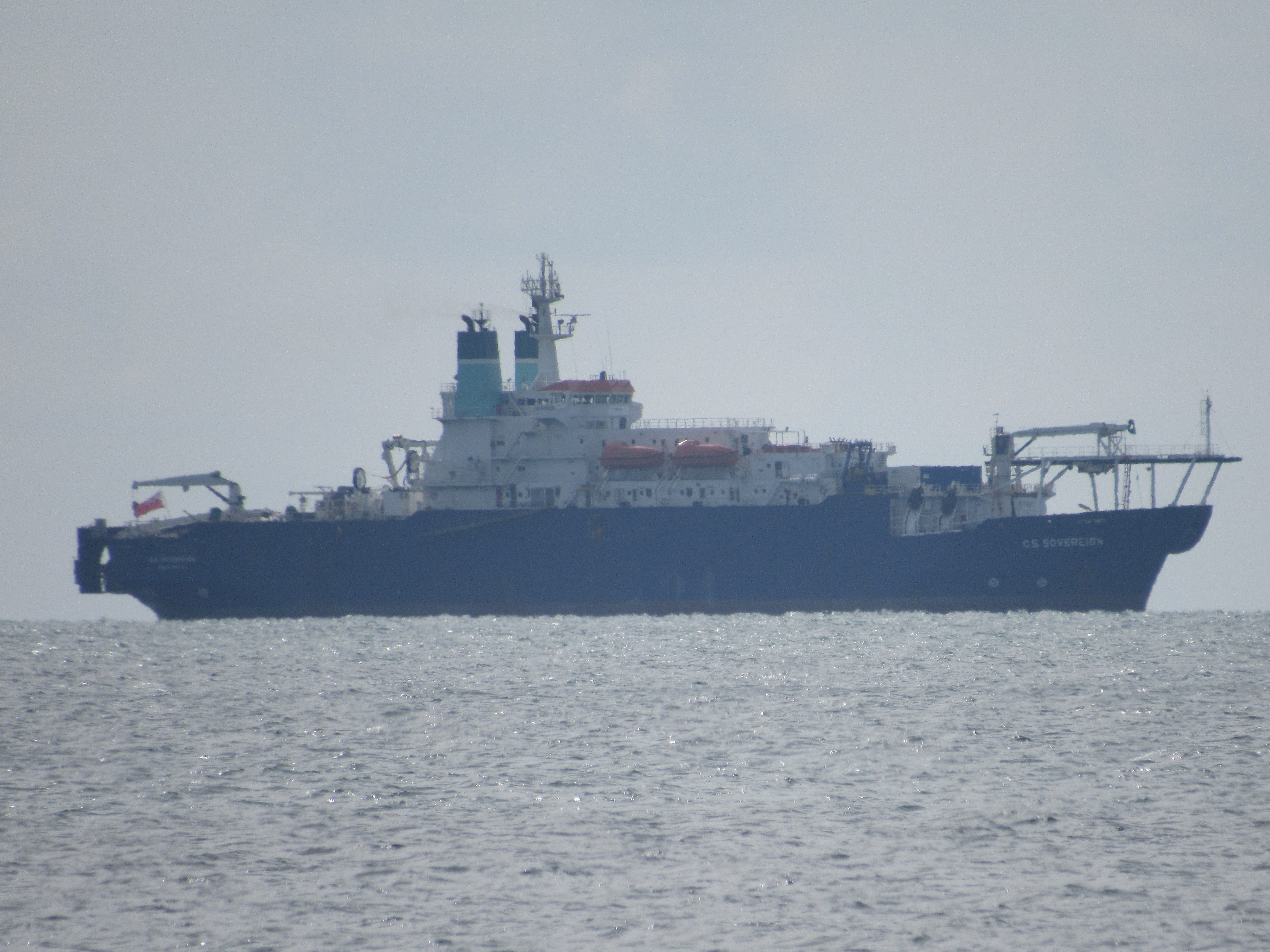 C.S. Sovereign Taken in Weymouth, Dorset